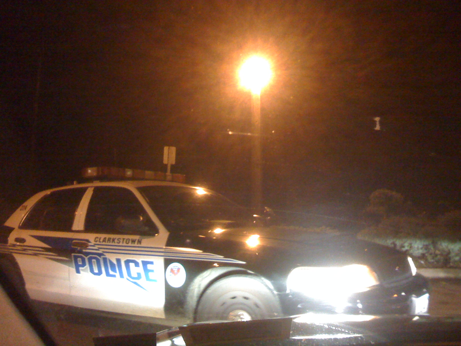 Police Car from the Town of Clarkstown, Rockland County, New York, United States.